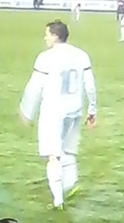 Walter Montillo playing for Santos FC against EC Vitória on 24 August 2013.